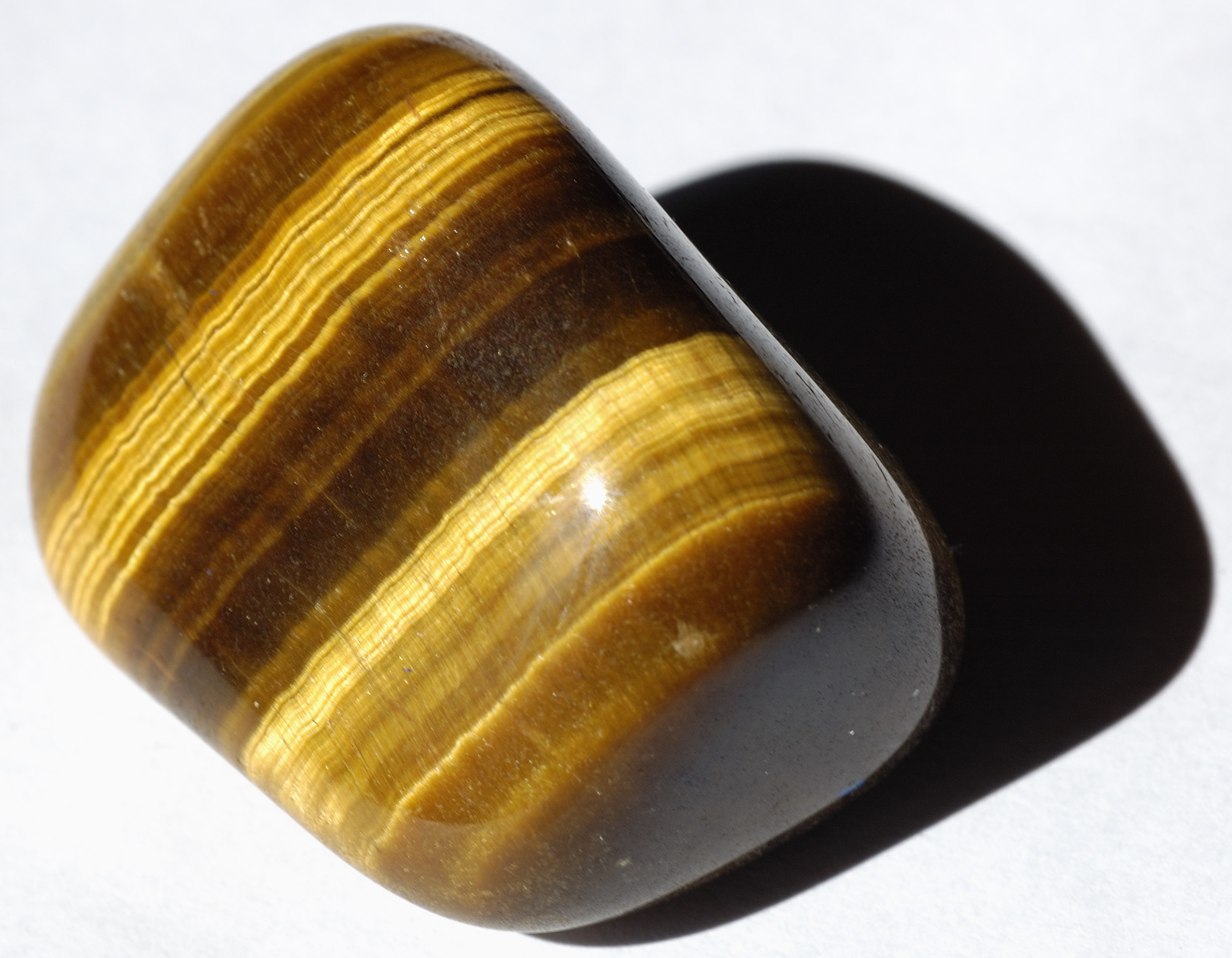 Tiger's eye